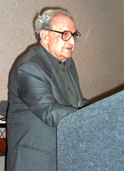 Dr. Wolf Leslau in 2004, speaking in San Diego to the 32nd North American Conference on Afroasiatic Linguistics. Photo by Pete Unseth.